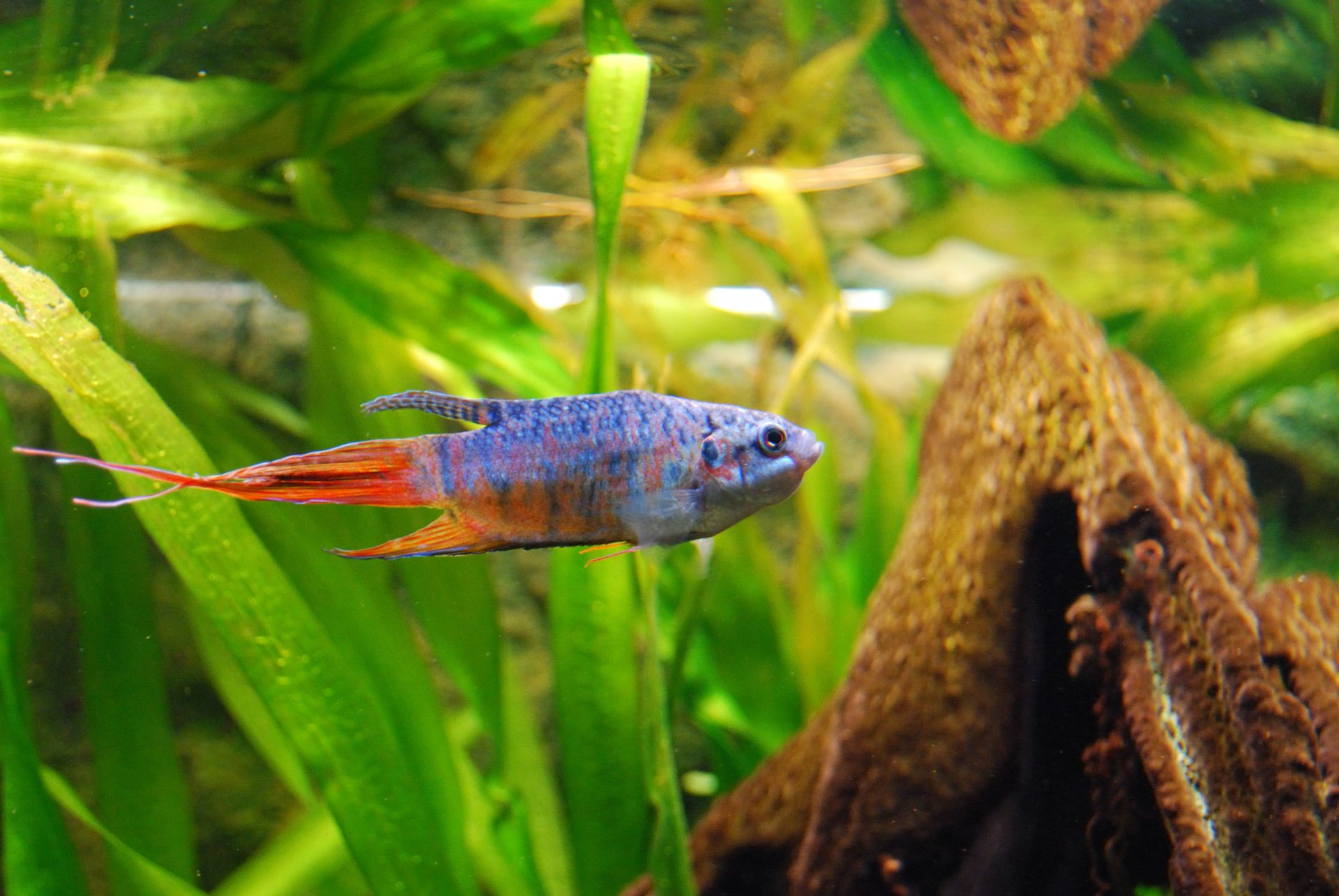 Macropodus opercularis, Paradiesfisch, Makropode, Paradise fish